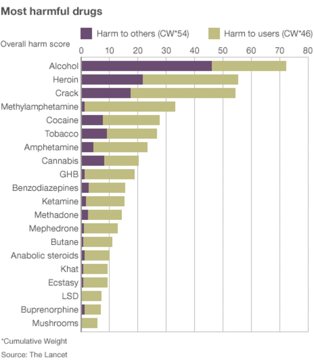 Template:Eng